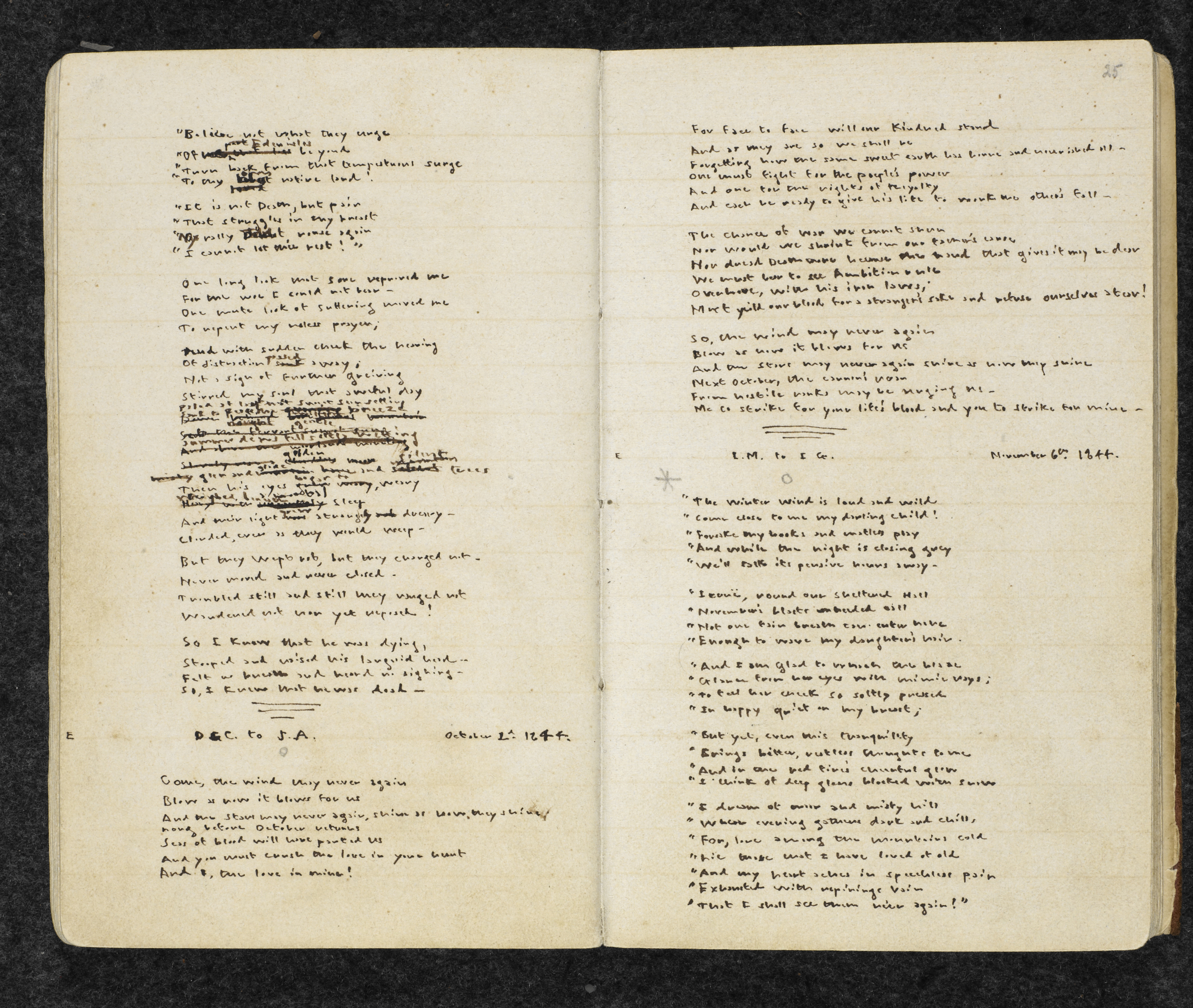 Image of the pages in Emily Brontë's note-book showing the poems with the first lines: Come, the wind may never again, and The winter wind is loud and wild.